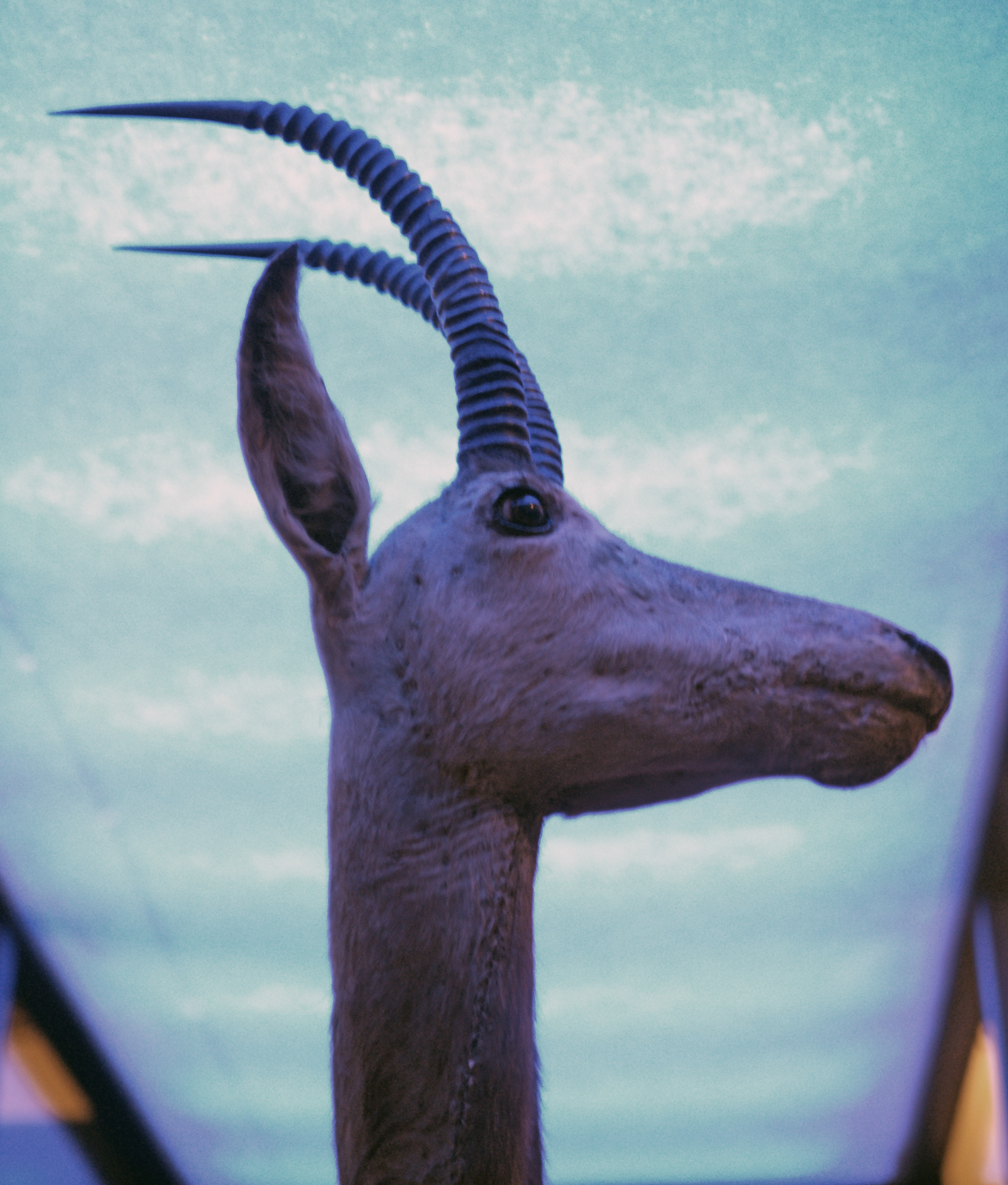 Bluebuck or Blue Antelope (Hippotragus leucophaeus), Naturhistorisches Museum Wien.